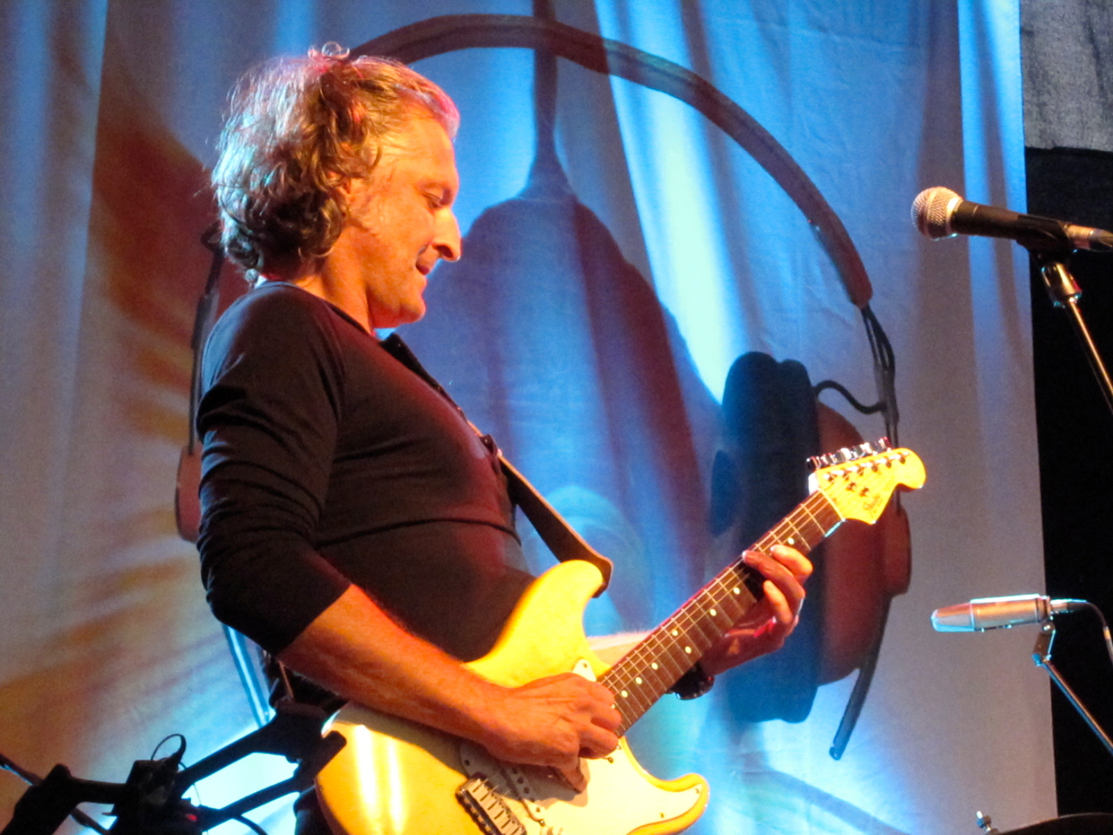 Austrian Blues guitarist "Sir" Oliver Mally at MURTON GRAZ 2013.